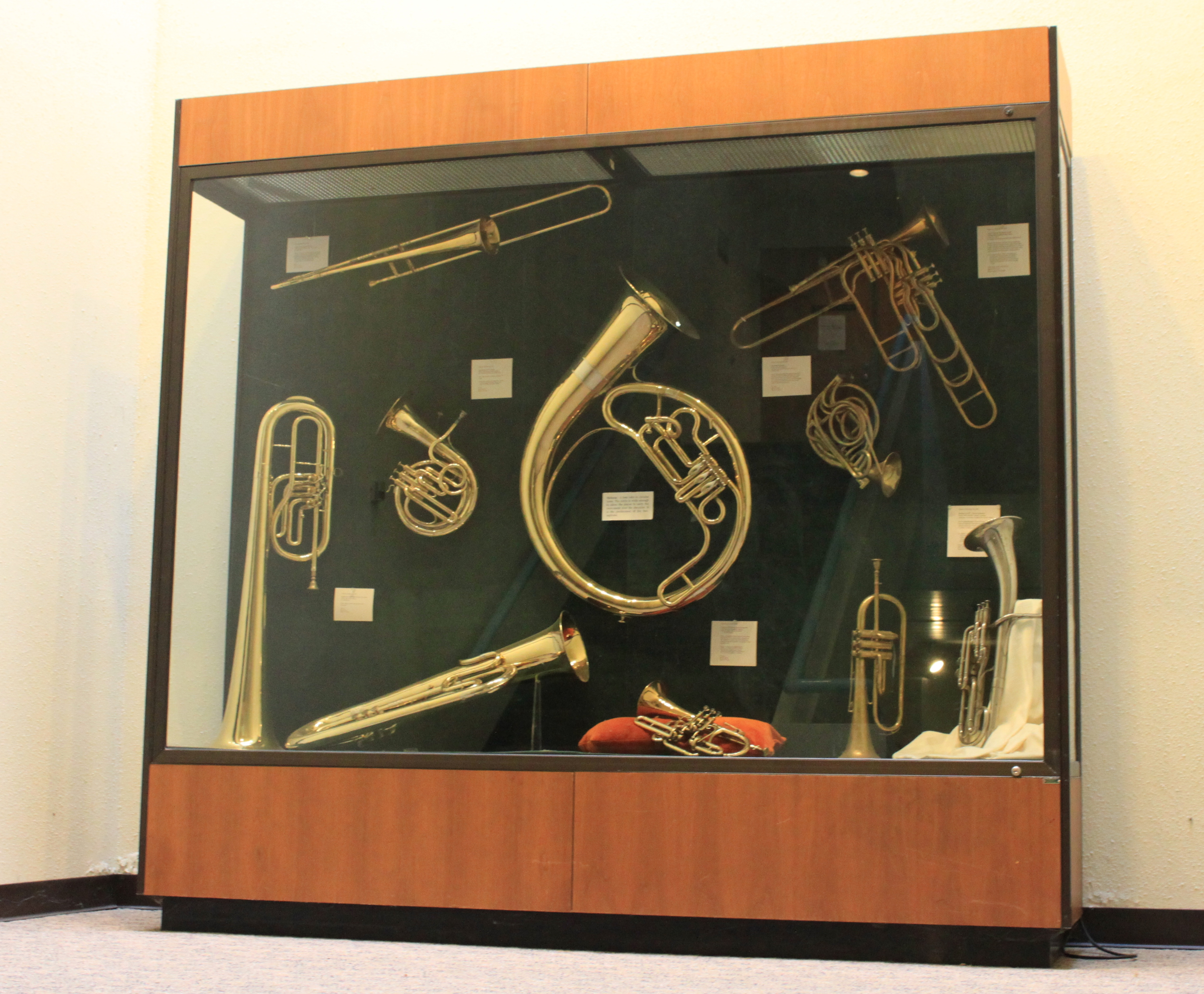 Display of the Stearns Collection of Musical Instruments, University of Michigan School of Music, Theatre and Dance, Earl V. Moore building, 1100 Baits Avenue, Ann Arbor, Michigan TromboneOver the shoulder hornFrench hornSaxtubaOmnitonic horn6-piston tromboneTritonikonCornetFlugelhorn (?)Tenorhorn (?)